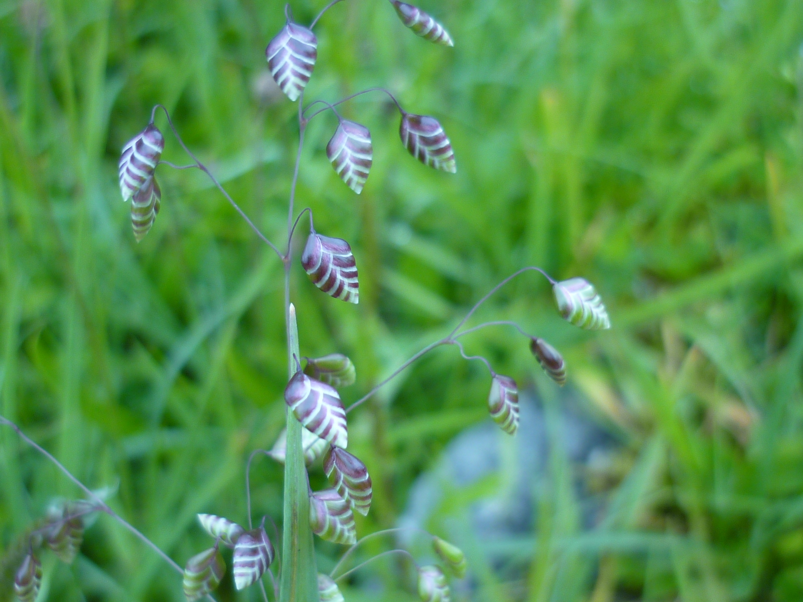 Common quaking grass in Boho, West Fermanagh Scarplands